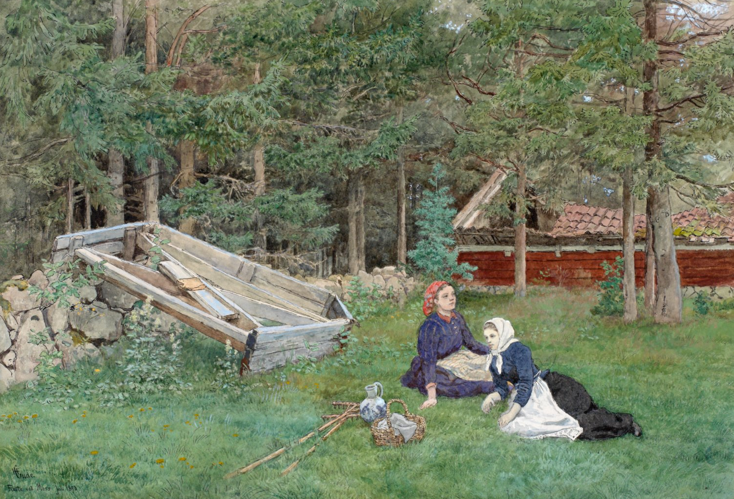 Watercolor painting "Den gamle Sneplov Ved Skovkanten" by Hans Gude, original size 37x53cm